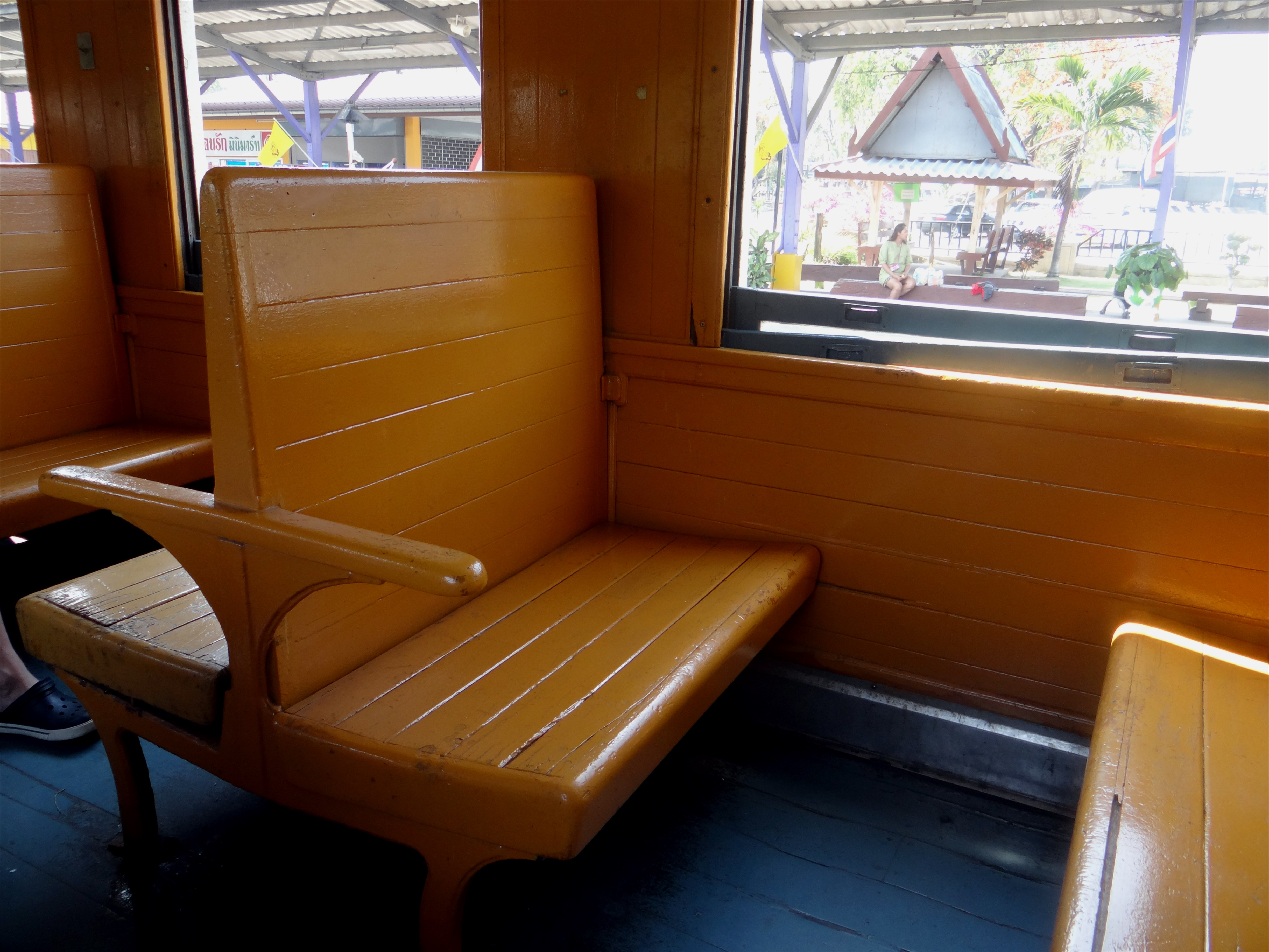 Death train station in Kanchanaburi, Thailand. Wooden bench.